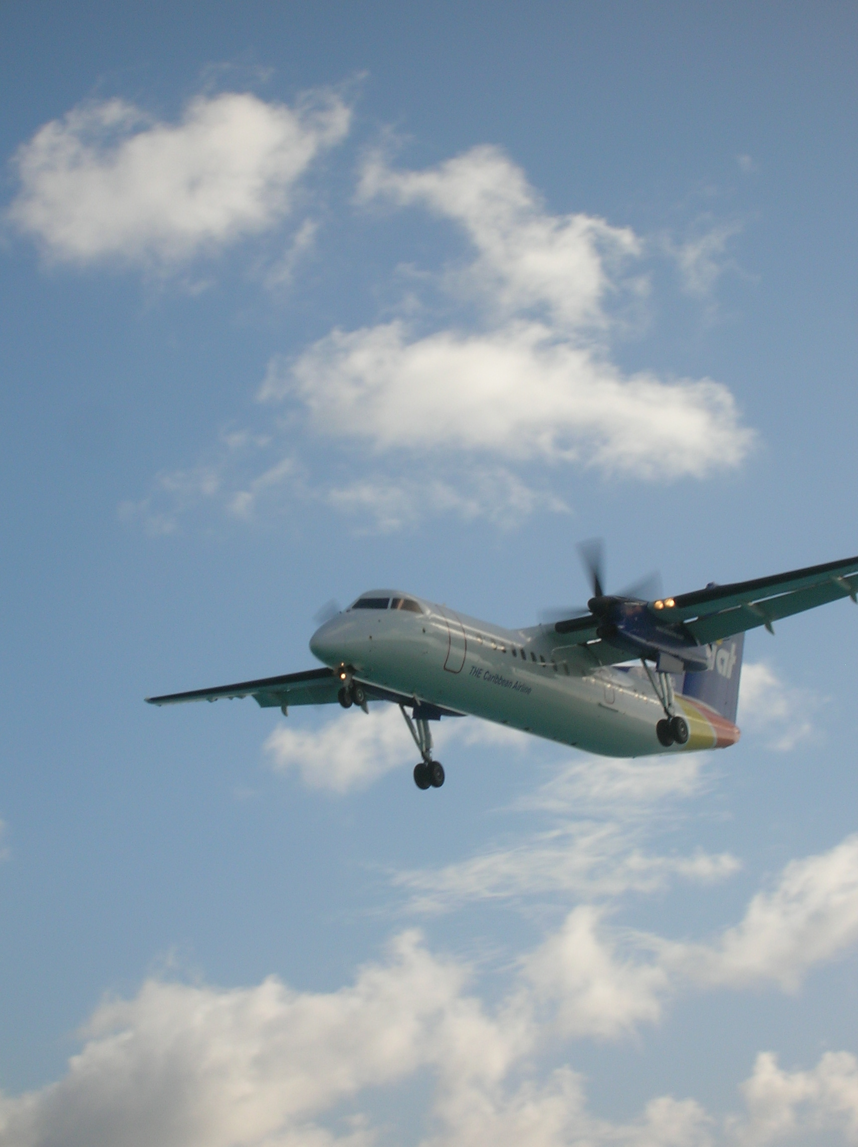 Regional airliner landing